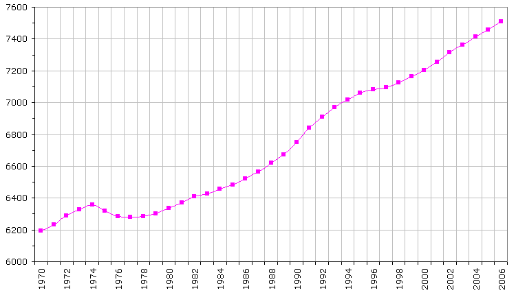 Switzerland's population (1970-2006).